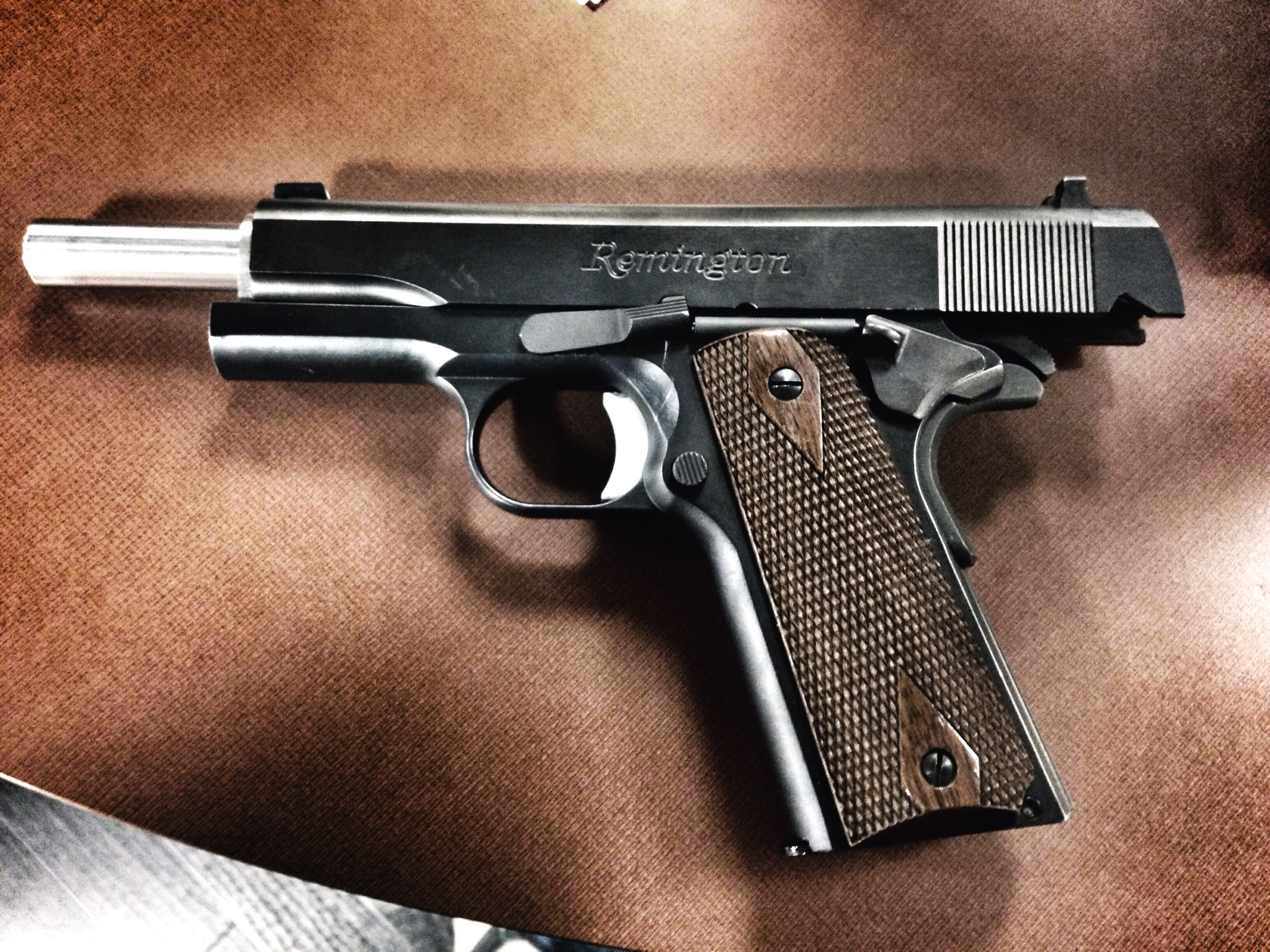 This file shows a Remington Model R1 1911